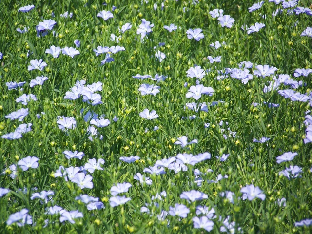 Linseed flax (Linum usitatissimum), near Whitsbury. This delicate looking plant has been an invaluable element in the economy of many civilizations since at least 5000BC. Cloth spun from flax has been found in ancient tombs. It was used for clothing and hangings in houses and temples; for sails and the thread for fishing nets; for ropes and bow strings; and, knotted with sow, stuffed into the cracks of boats. To make cloth the flax was soaked, dried in the sun, tied into bundles. and then as a medieval account has it, 'knockyd, beten, rodded and gnodded, ribbed and heklyd and at last sponne'. Equally important is its yield of oil. Commercial crops of linseed have been grown in many parts of the world for use in paints, varnish and putty, as fattening food for cattle and in veterinary medicine. Externally it may be used as a poultice for boils, inflammation and wounds.